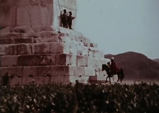 Pasargad Peyk Sepaas Shahanshahi 2500